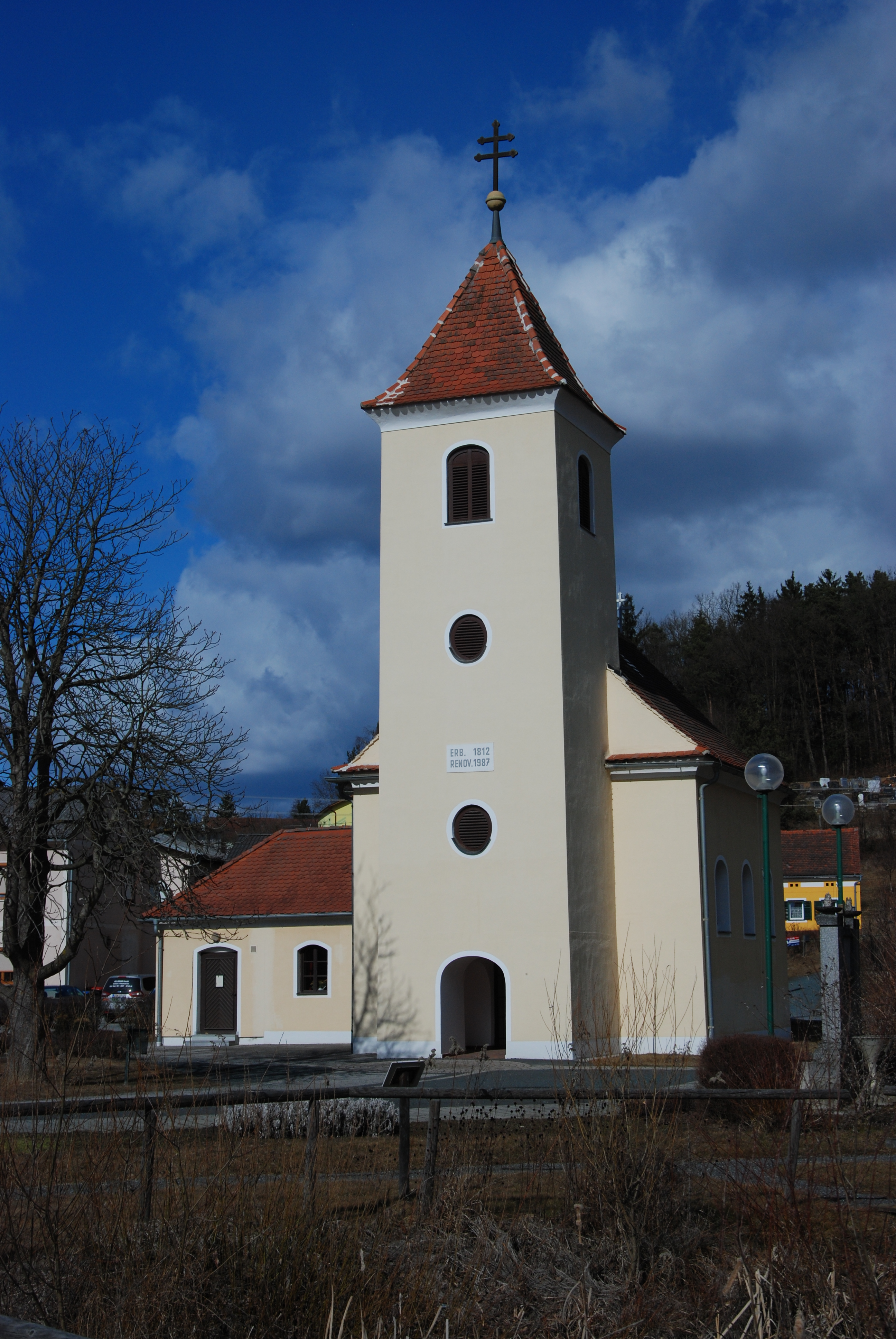 Kirche Rohr im Burgenland